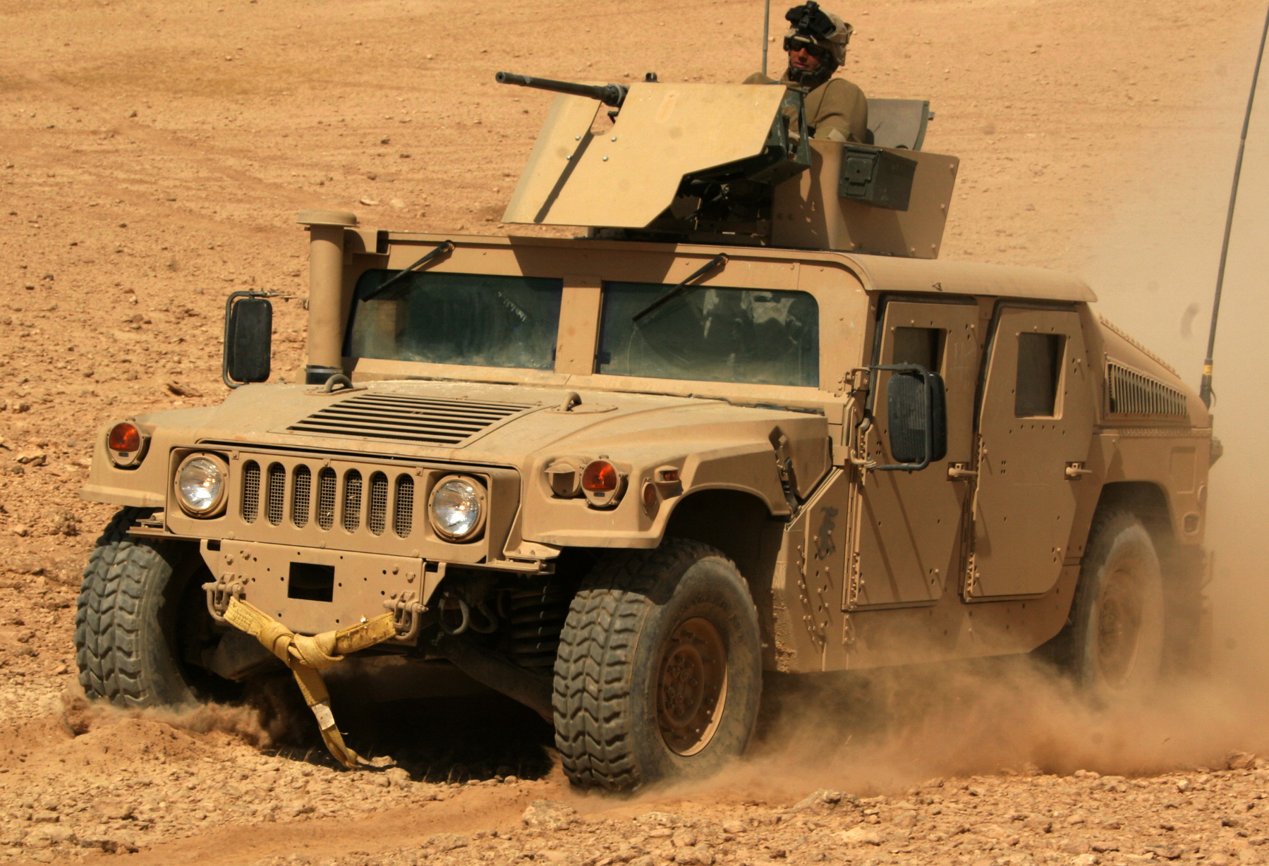 AL ASAD, Iraq - A humvee cruises up a dusty slope during a perimeter patrol June 21. Being the primary source of transportation for the Marines of the Perimeter Patrol Teams with 2nd Platoon, E Company, 1st Battalion, 14th Marine Regiment, Marine Wing Support Group 37 (Reinforced), 3rd Marine Aircraft Wing, the humvee helps them accomplish their responsibilities of keeping the surrounding areas around Al Asad secure and free of any threats.